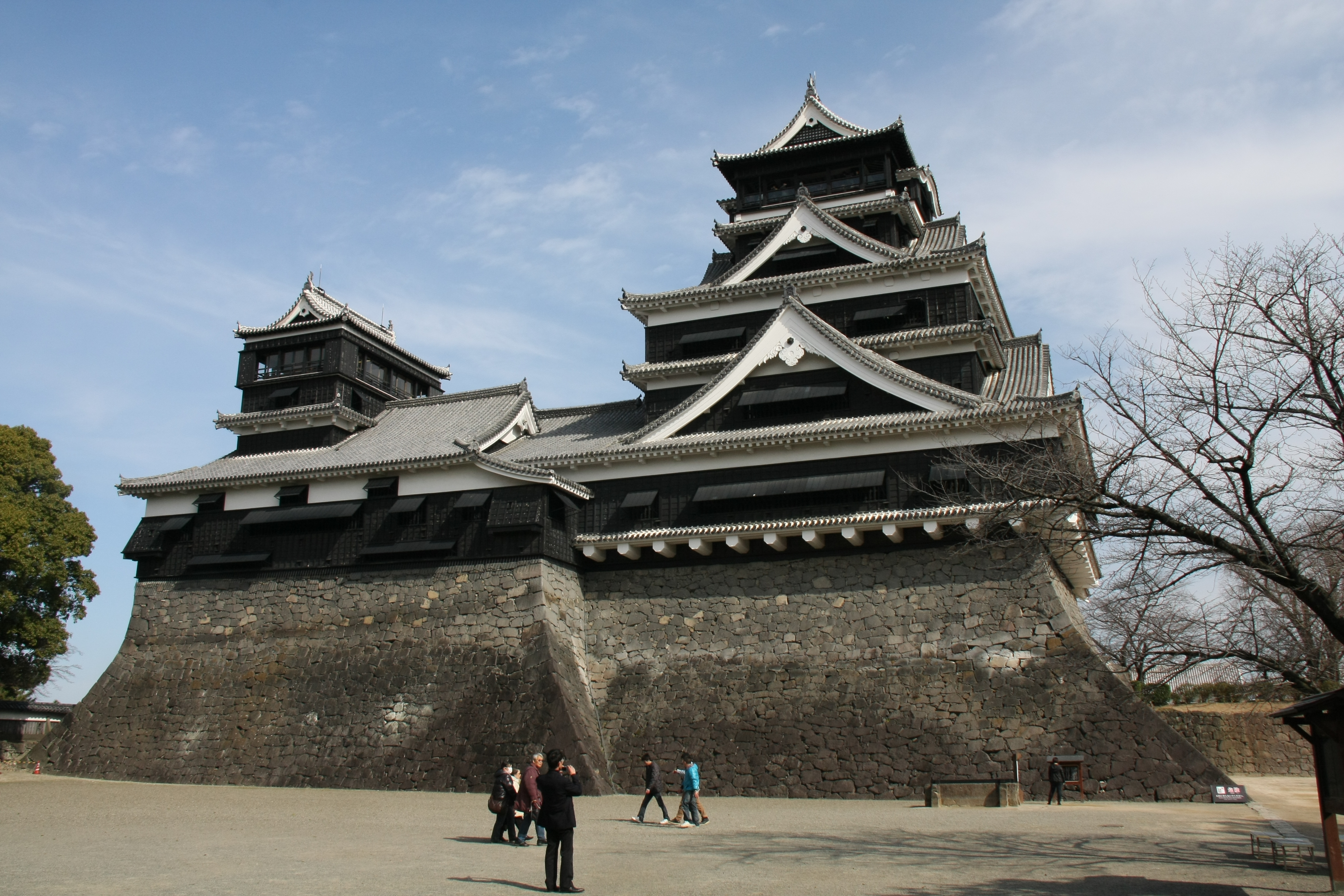 Kumamoto castle is one of famous castles in Japan. Kato Kiyomasa built it in Samurai ara.